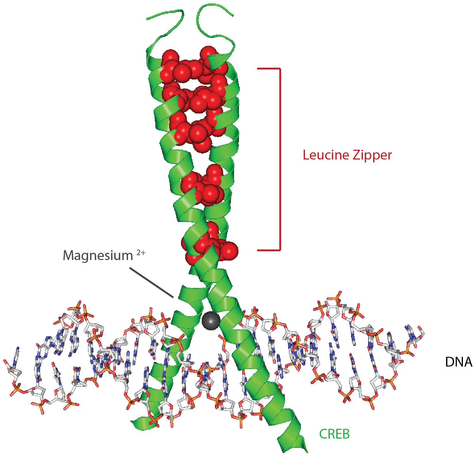 The overall structure of the CREB transcription factor. The region in red is the dimerization domain called the leucine zipper. The magnesium ion is in grey and the DNA is multicolored. Rendering of PDB 1DH3